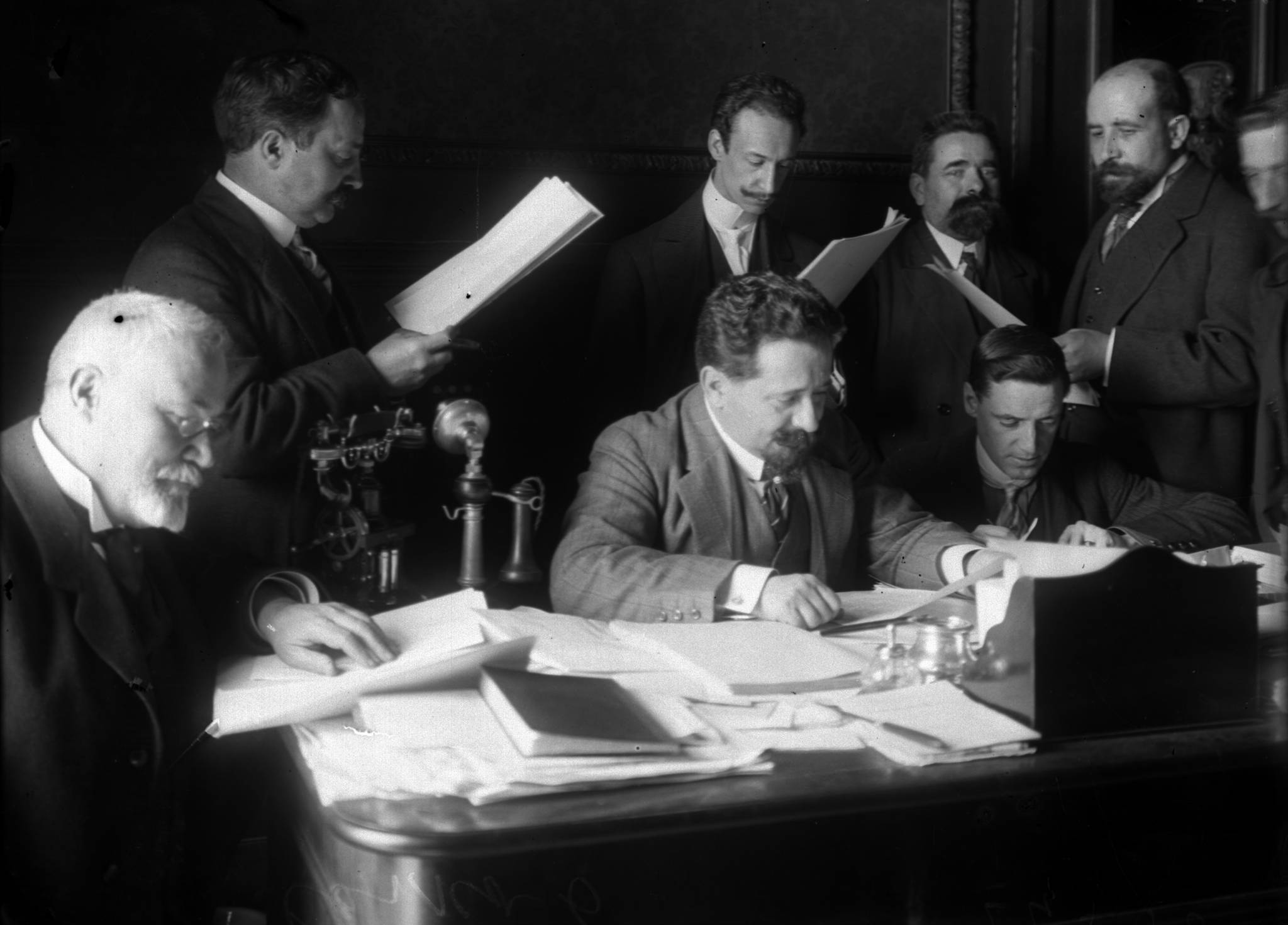 Afonso Costa signs the Law of Separation of Church and State, 20 April 1911.